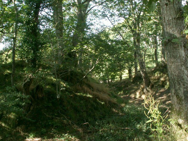 Rhosgoch Motte. Small (approx 20m wide) Motte and ditch, believed to be the remains of Castell Peithyll (destroyed in 1113).